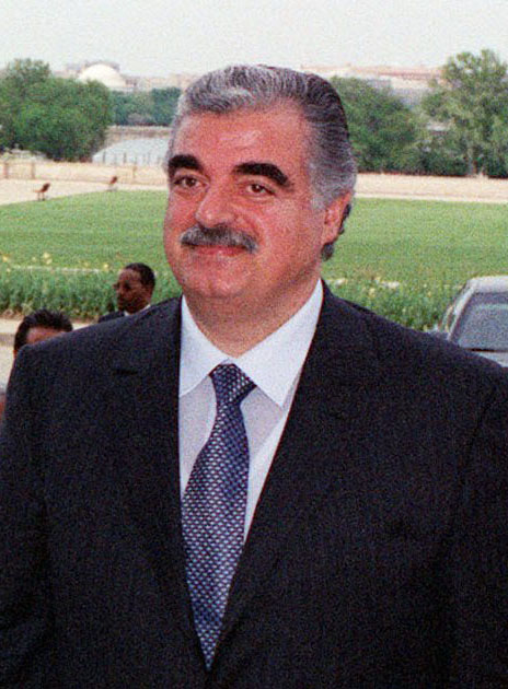 Secretary of Defense Donald H. Rumsfeld (left) escorts Lebanese Prime Minister Rafiq Hariri into the Pentagon on April 25, 2001. Rumsfeld and Hariri will meet to discuss a range of regional policy and security issues of interest to both nations.